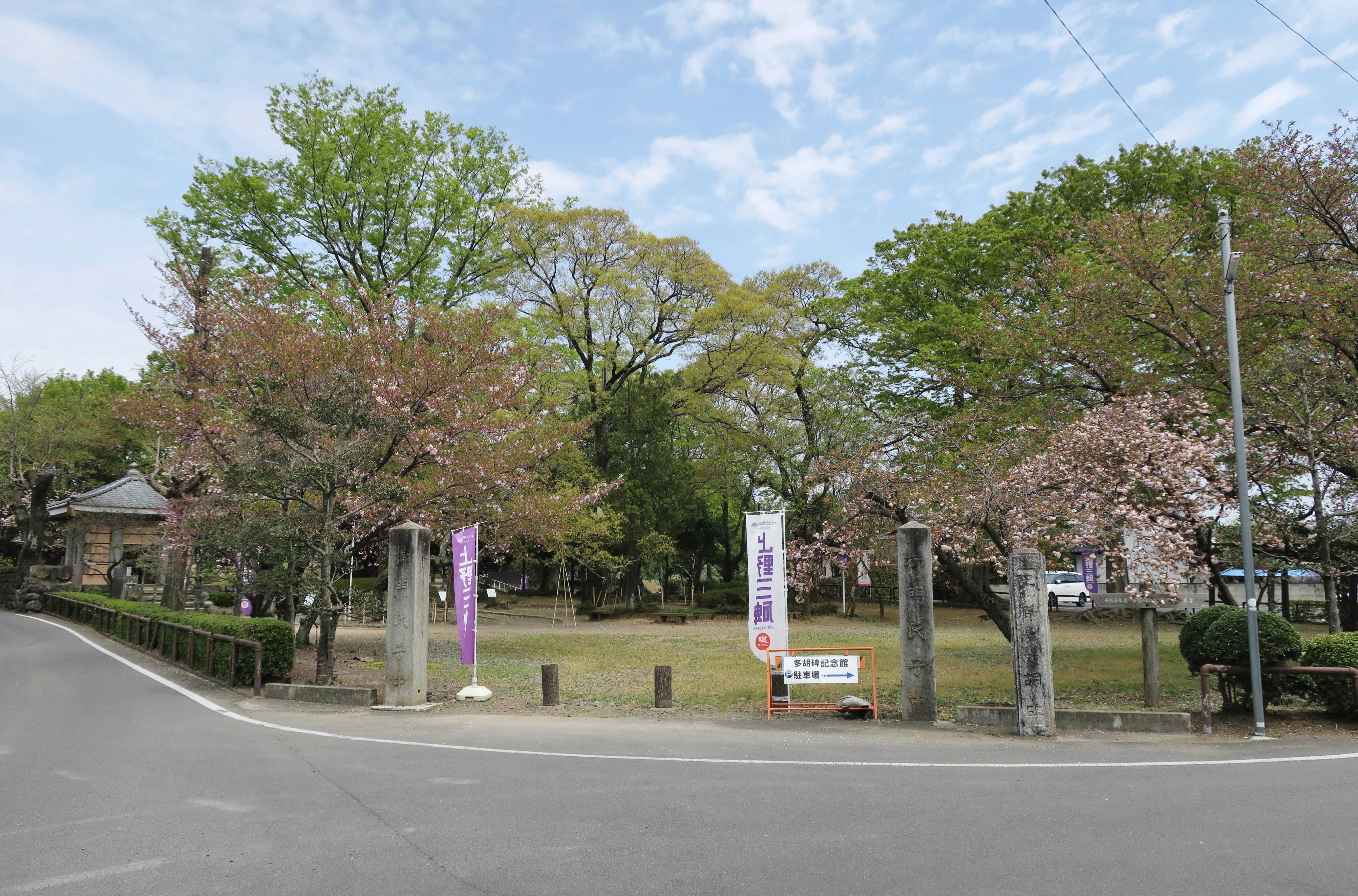 Sekihinosato Park (Takasaki, Gunma).